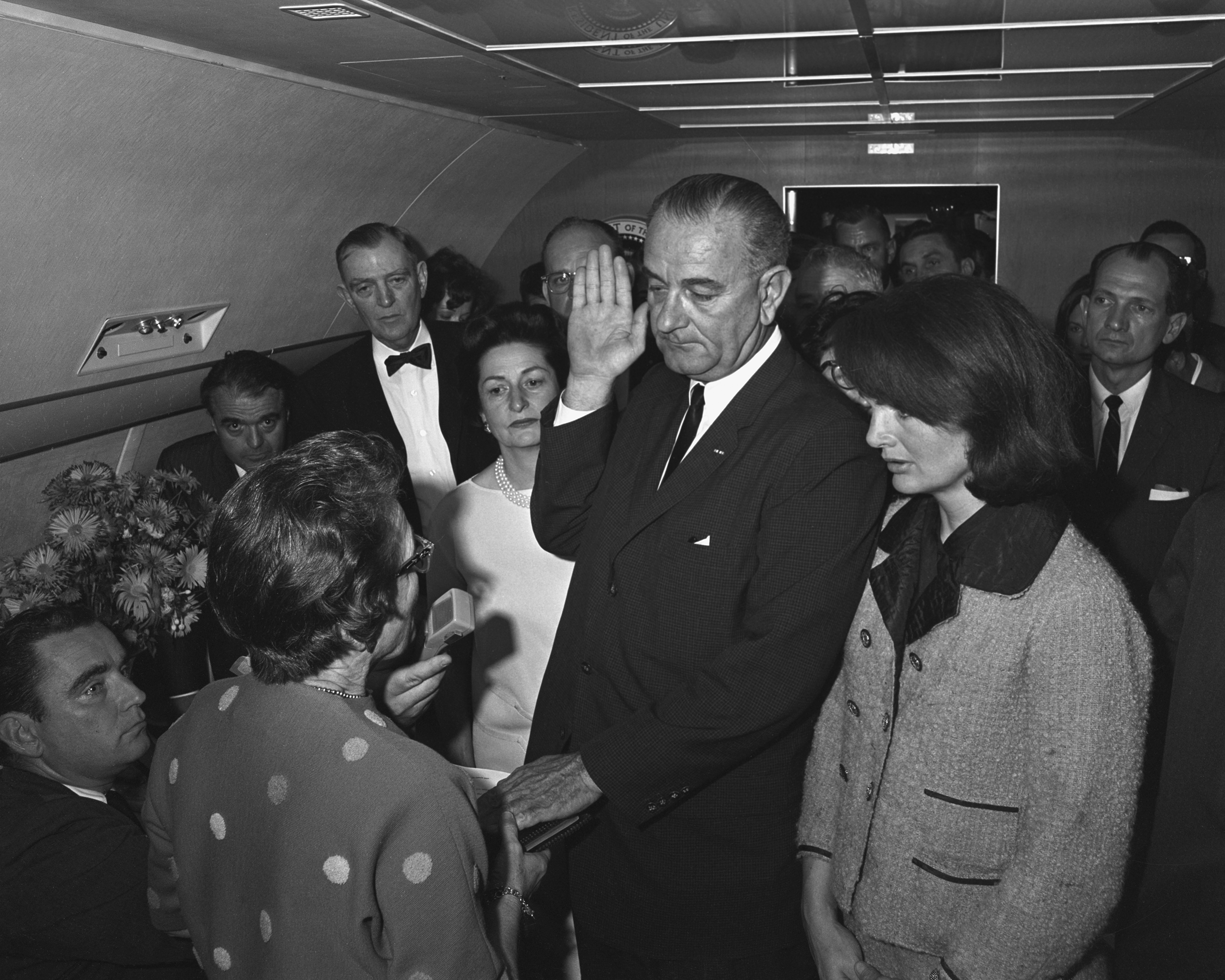 On Air Force One, 22 November 1963, Lyndon B. Johnson takes the oath of office as President of the United States following the assassination of President John F. Kennedy earlier in the day. Press Secretary Malcolm Kilduff at bottom left holds a dictaphone to record the event.